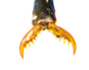 Lebia chlorocephala claw of hind leg